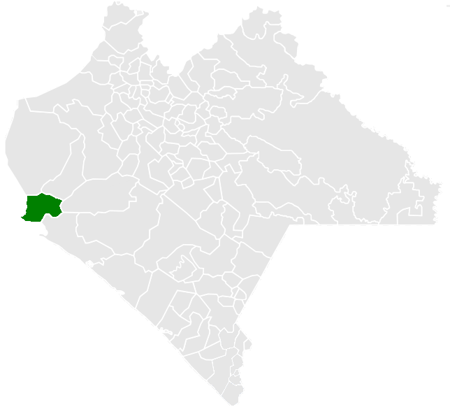 Map of the Municipalty of Arriaga in the State of Chiapas, México.